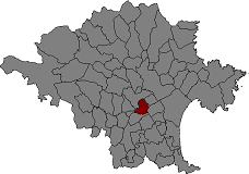 Location of el Far d'Empordà in Alt Empordà